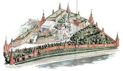 Overview map of the Moscow Kremlin. Location of Pervaya Bezymyannaya Tower marked.